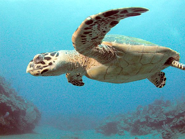 Hawksbill Turtle, Saba, Netherlands Antilles. Image taken by Clark Anderson/Aquaimages.